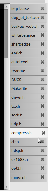 A screenshot of the GPL Geany text editor showing how tabs can be placed vertically